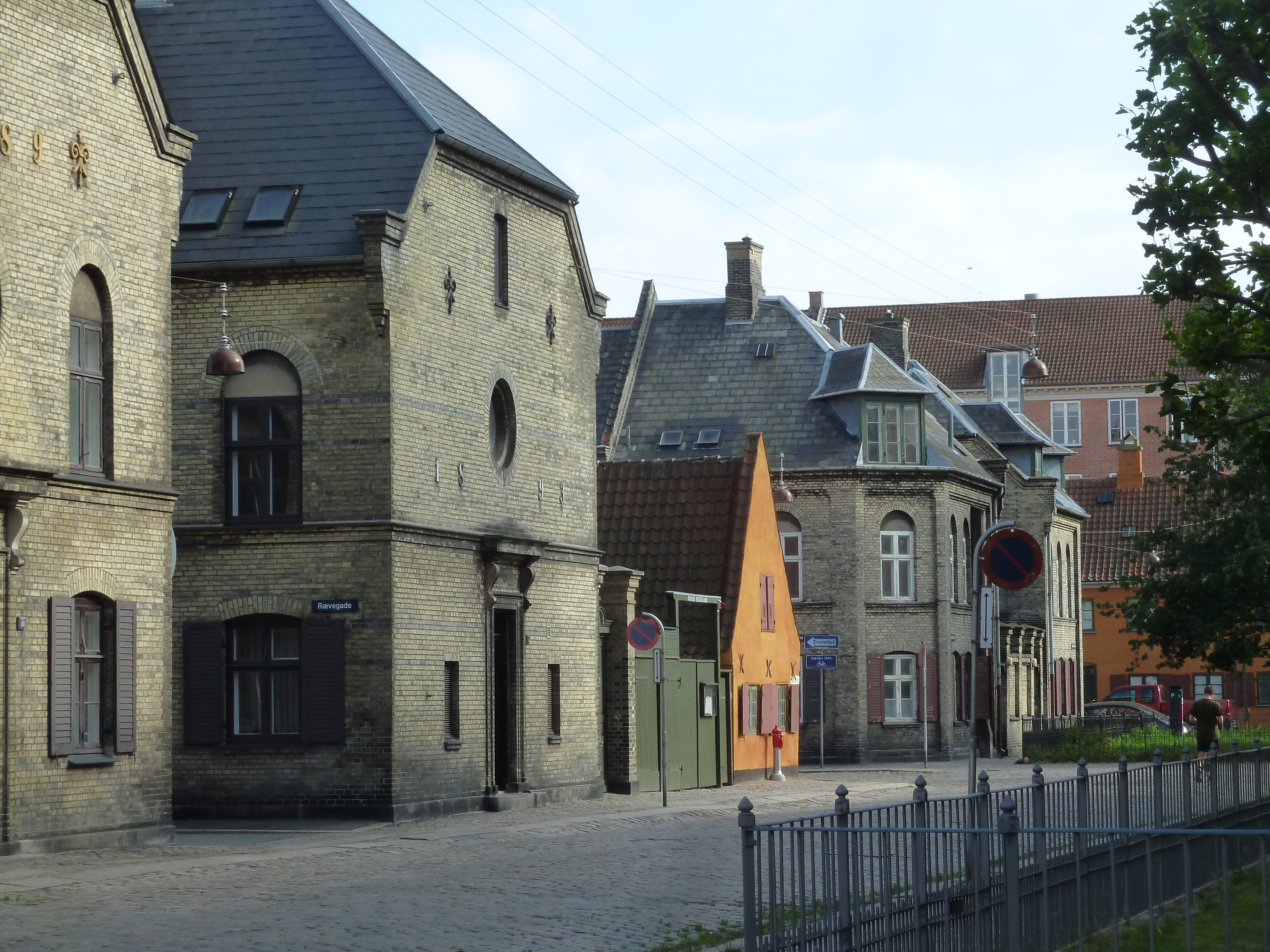 Sankt Pauls Plads, the house row on the southeast side of St. Paul's Church in Copenhagen, Denmark